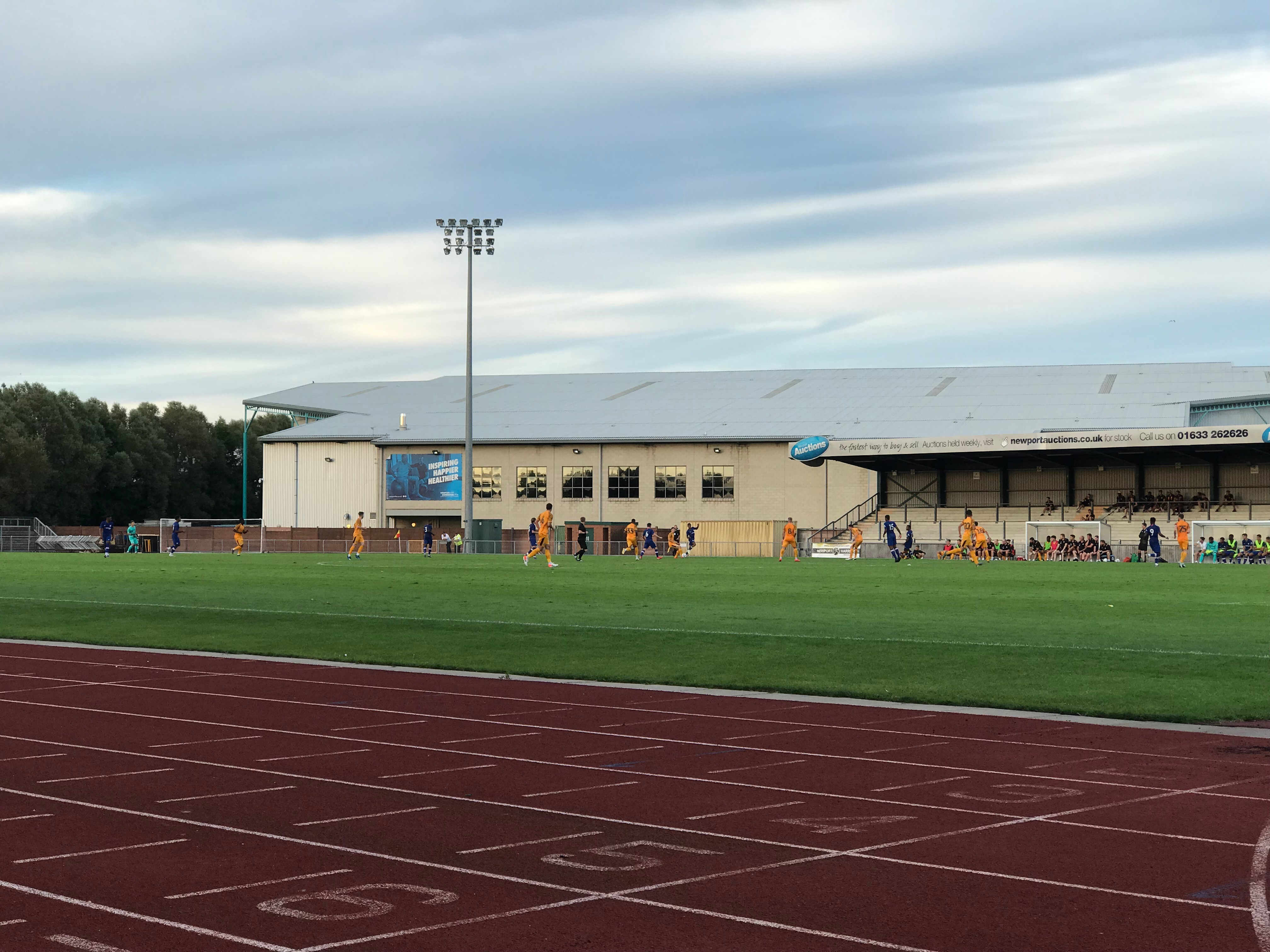 Newport County playing a friendly match against Chelsea F.C. Under 23s, during the 2019 pre-season schedule. The running track of Newport Stadium is visible in the foreground, with the leisure centre and floodlights in the background.